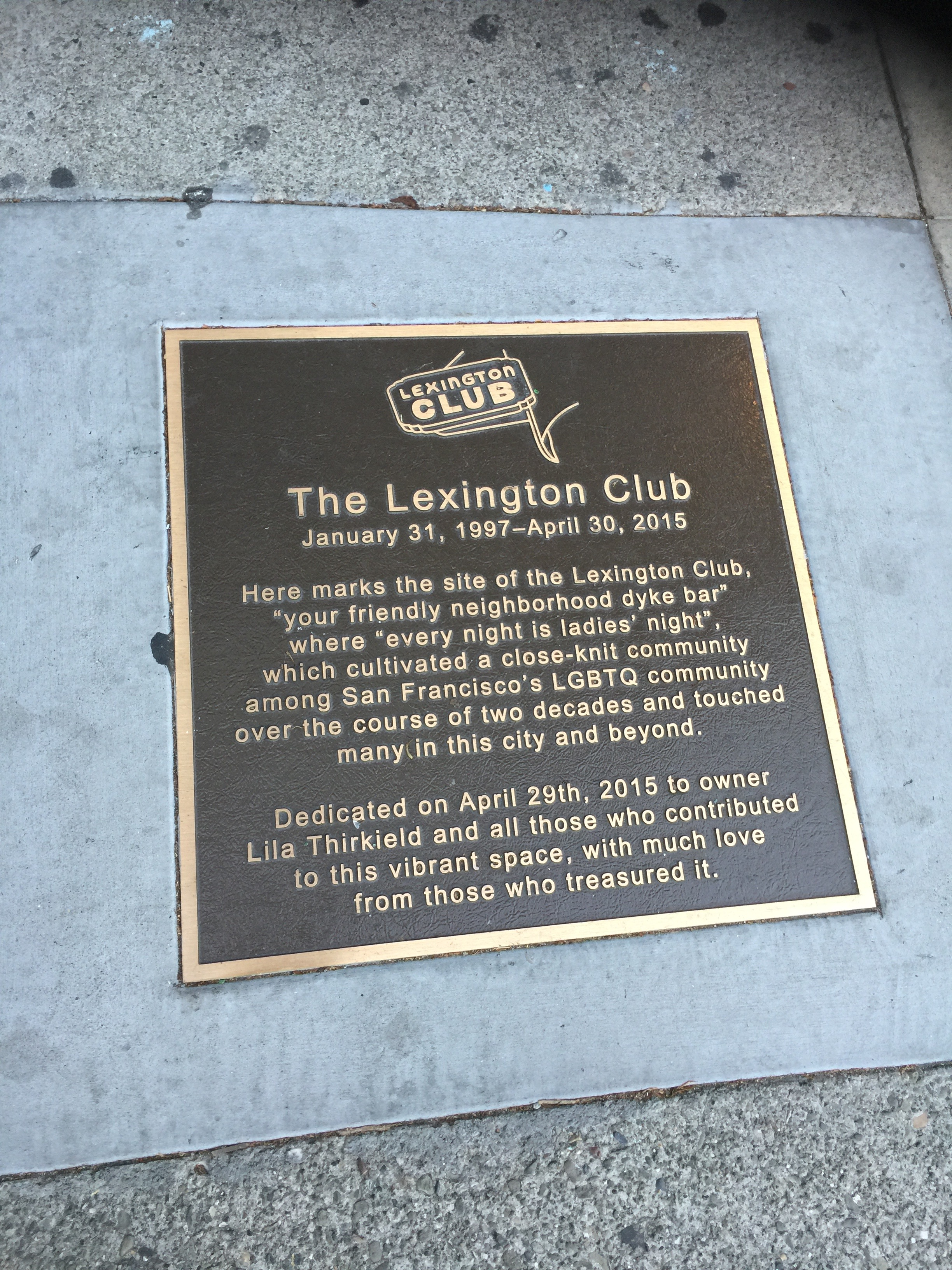 Commemorative sidewalk plaque outside the former Lexington Club, 3464 19th Street, San Francisco.